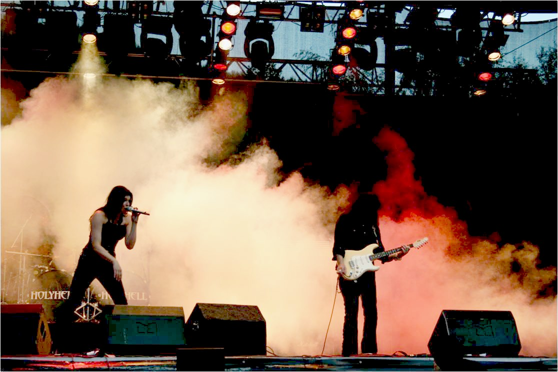 HolyHell at Norway Rock Festival 2009